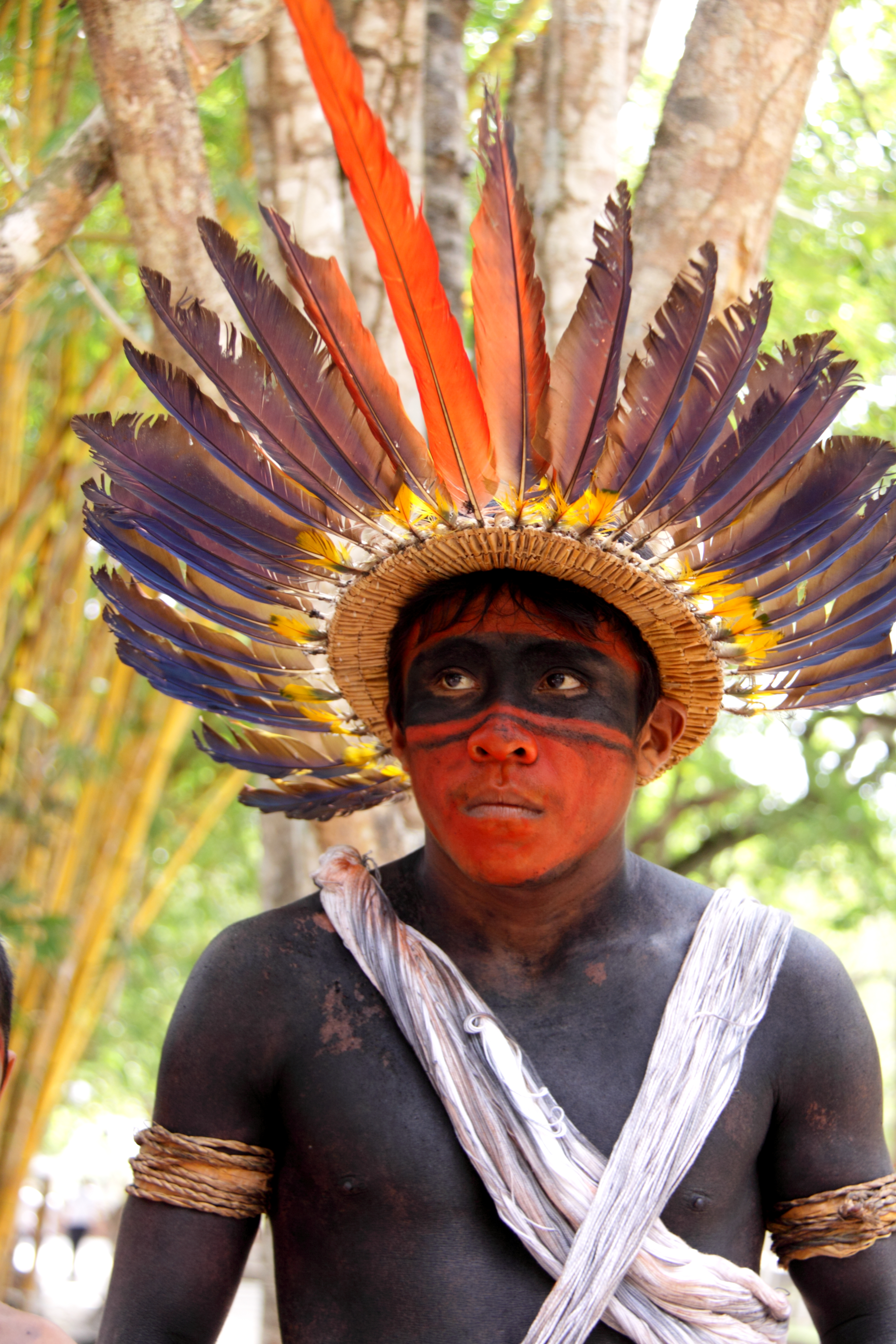 South American native of the Assurini tribe, in the Brazilian state of Pará